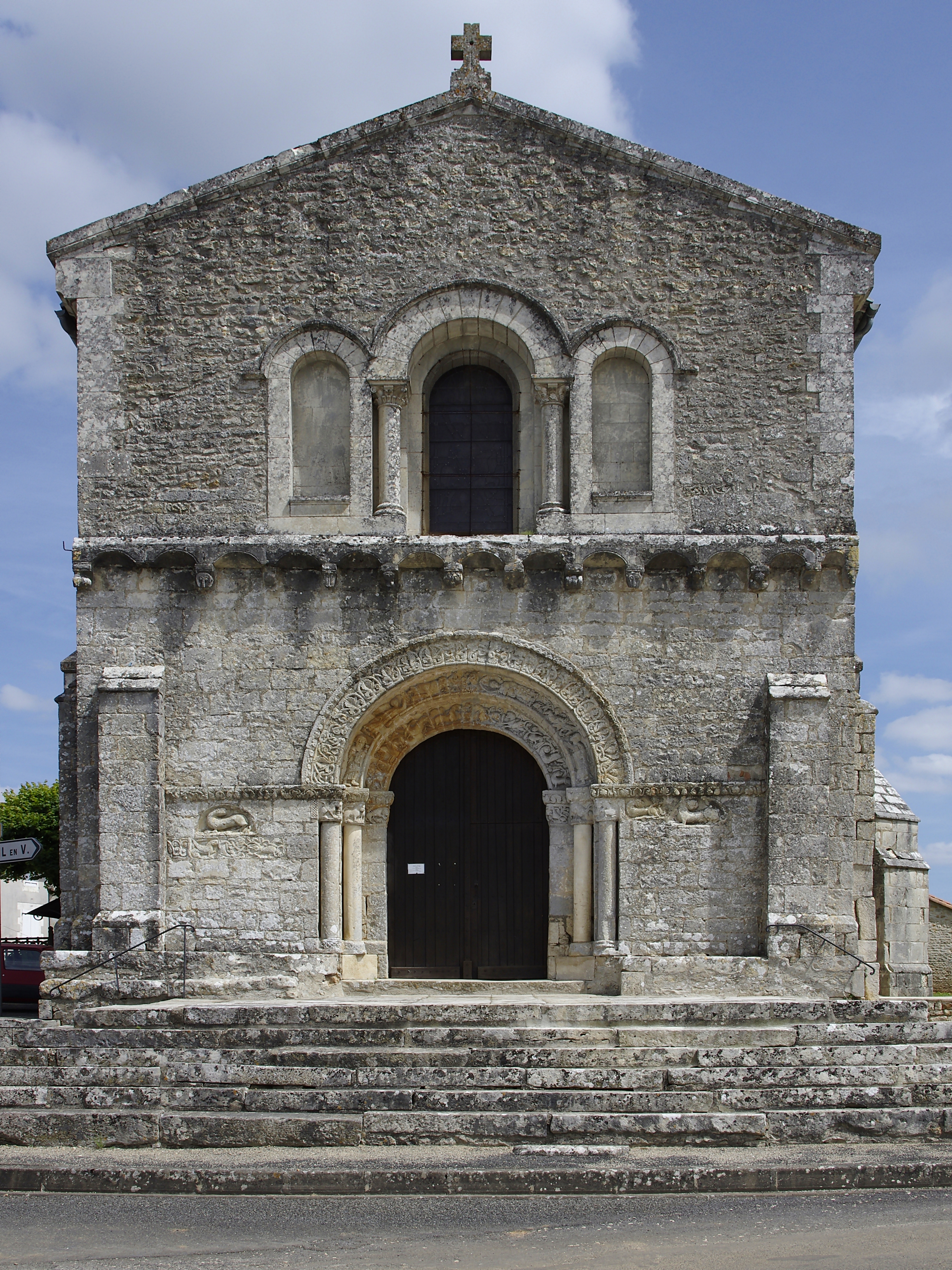 Façade of the Romanesque church built in the XIIth century and restored in the XIXth. Genouillé, Vienne, France